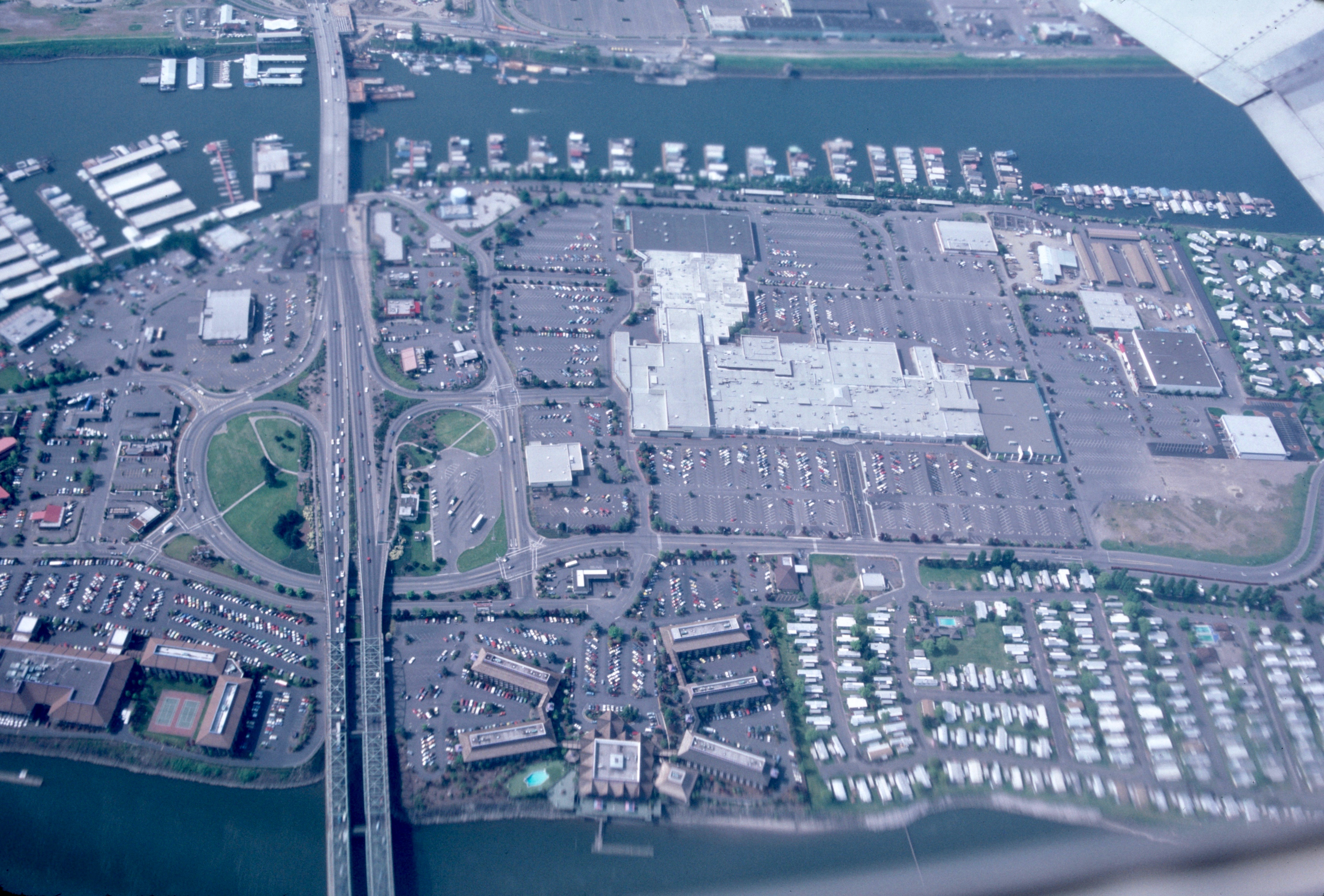 An aerial view of part of Hayden Island (in Portland, Oregon), looking south, in 1987. In the middle of the view is Jantzen Beach Center, when it was still an enclosed mall. Since then, it has been torn down and rebuilt as a "big box" type of retail development. On the left, Interstate 5 runs vertically through the frame. The body of water along the top of the frame is the North Portland Harbor (originally known as Oregon Slough or Hayden Slough), a distributary of the Columbia River (at the bottom of the frame).